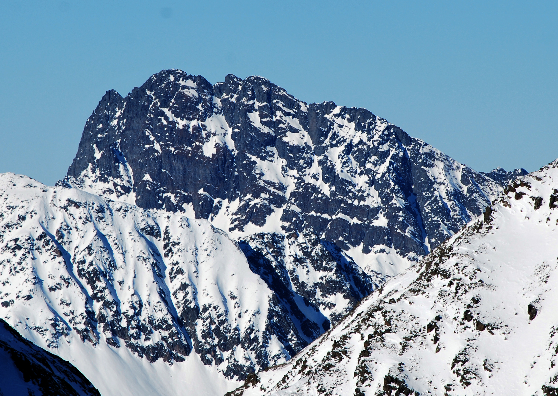 Hohe Villerspitze (3092m) from South (Schafkampspitze)